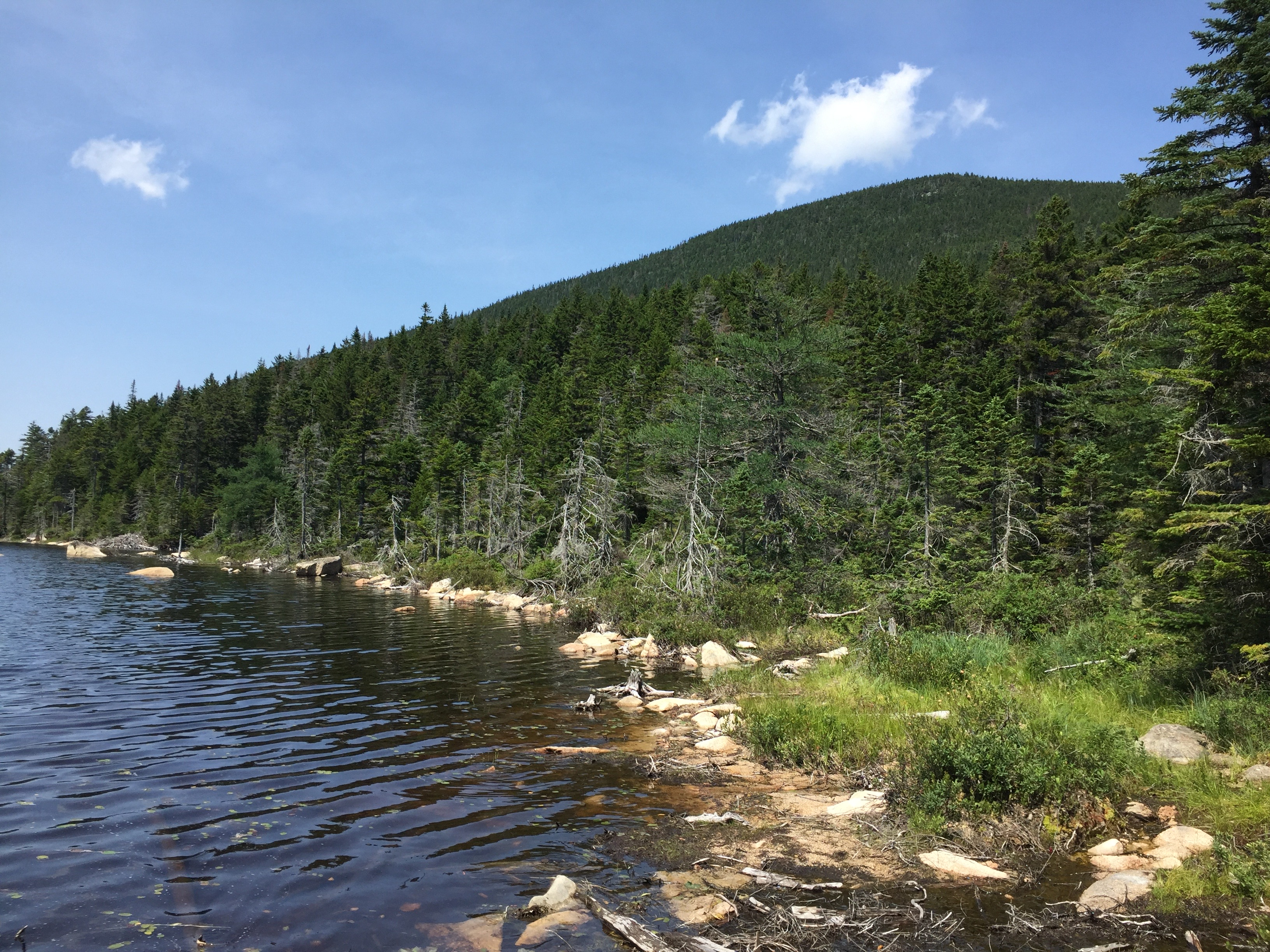 Mount Nancy in the White Mountains (New Hampshire), rising above Norcross Pond